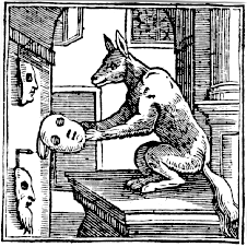 Emblema CLXXXIX (emblem 189), displayed in the Book of Emblems (Latin Emblematum liber) by Andrea Alciato, woodcut